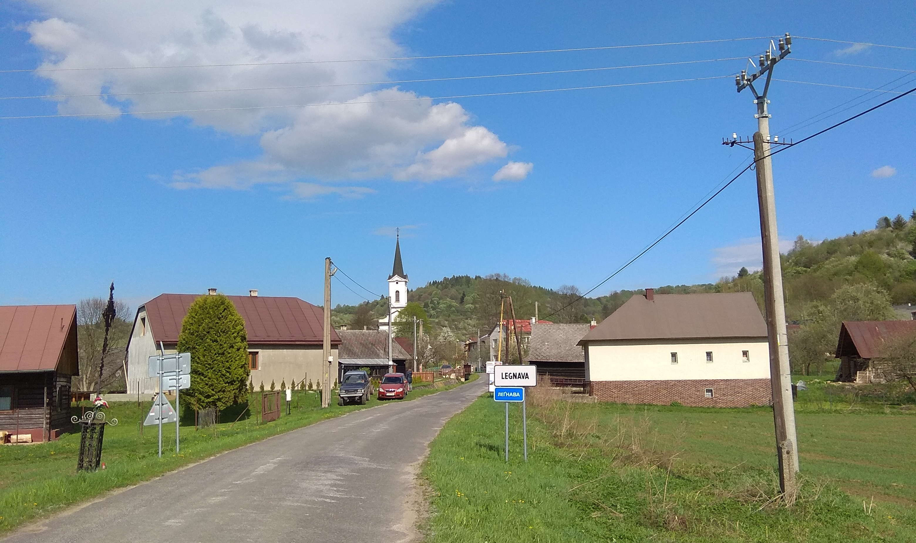 View of village Legnava in Slovakia